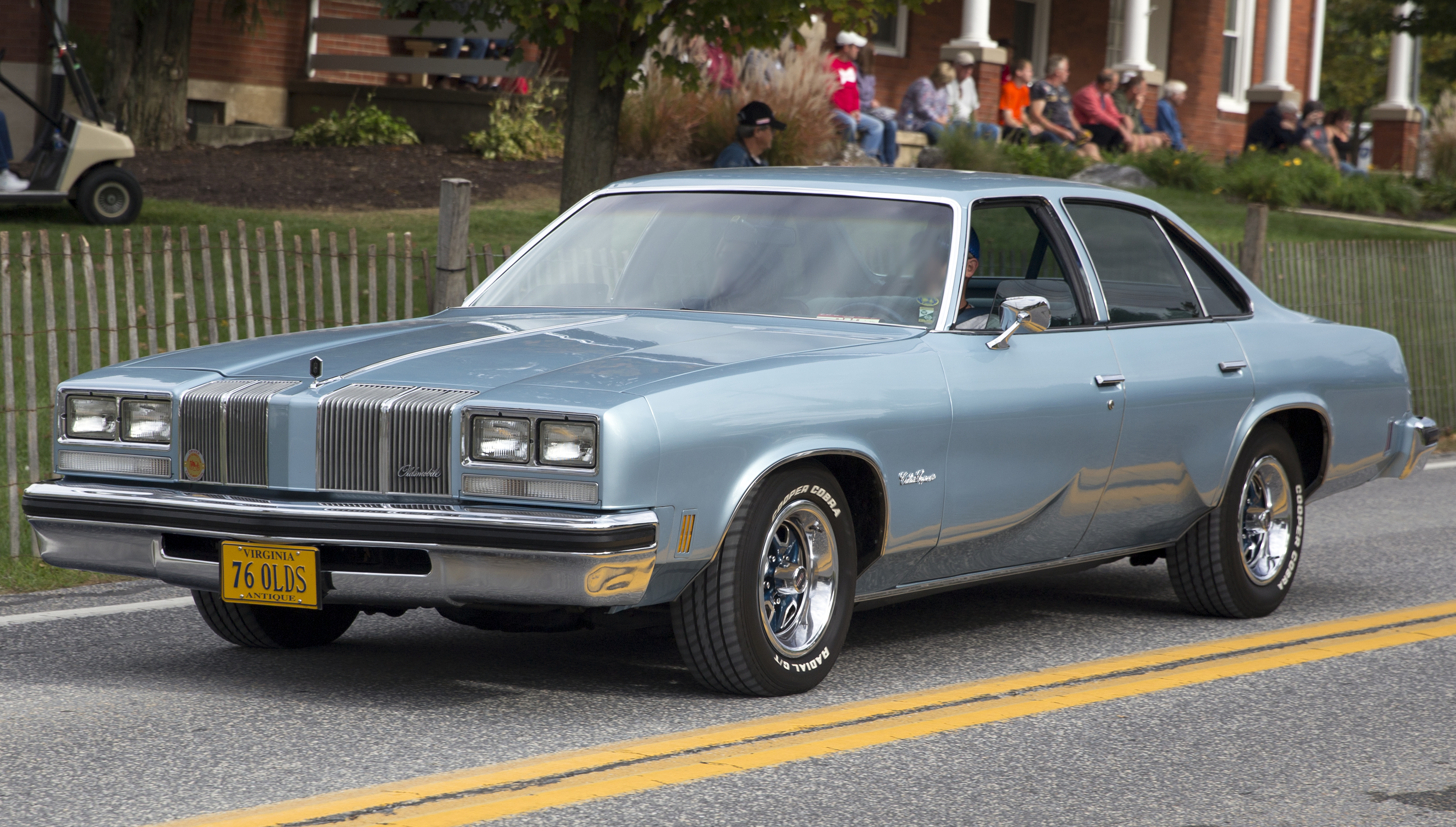 1976 Oldsmobile Cutlass Supreme four-door sedan leaving Hershey 2019.